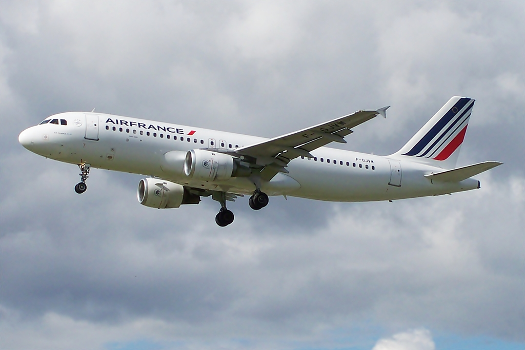 F-GJVW A320 Air France